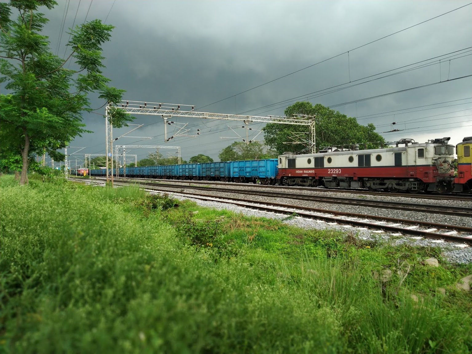 This is the Picture of Surla Road railway station